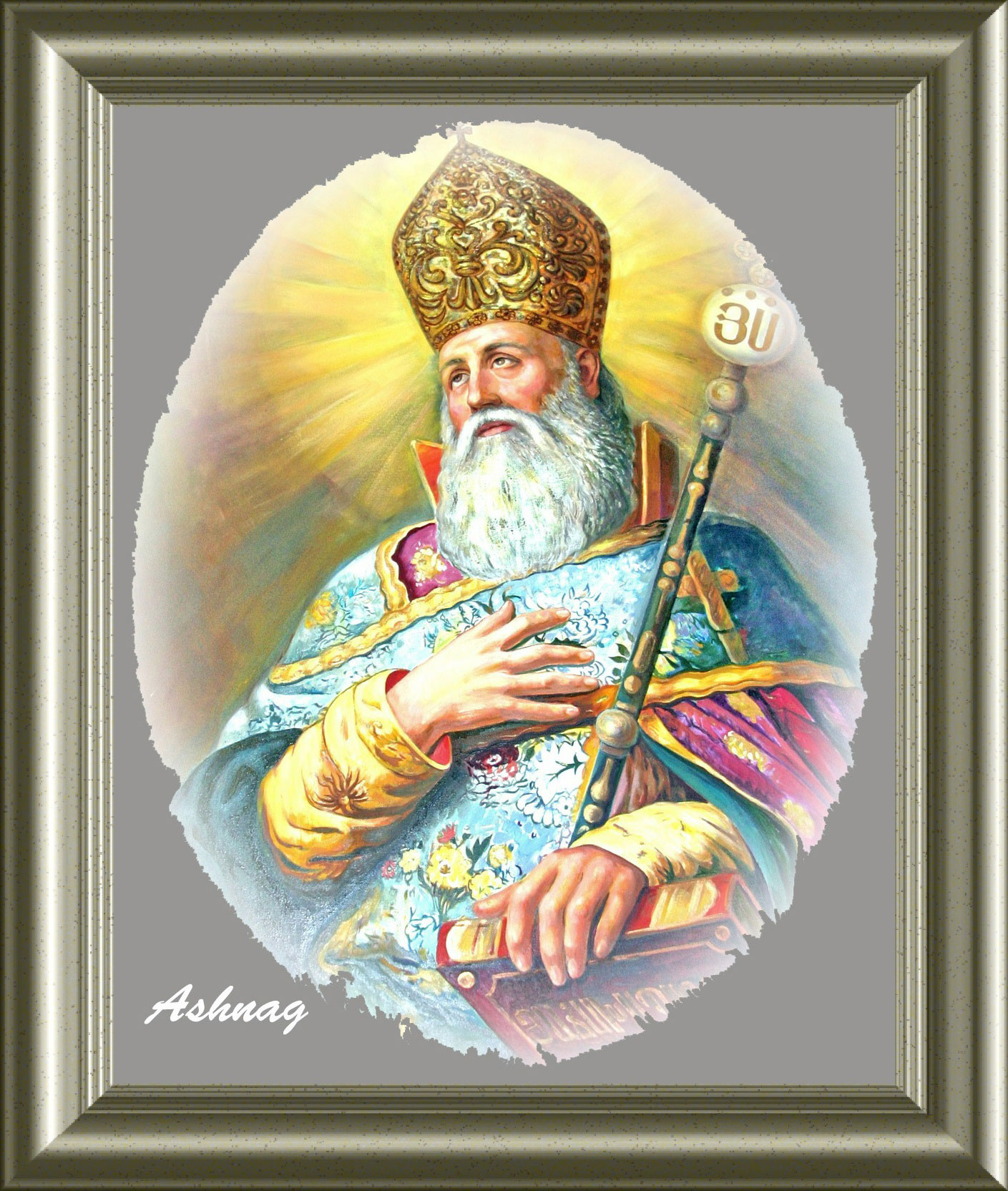 Portrait of Saint Gregory the Illuminator.